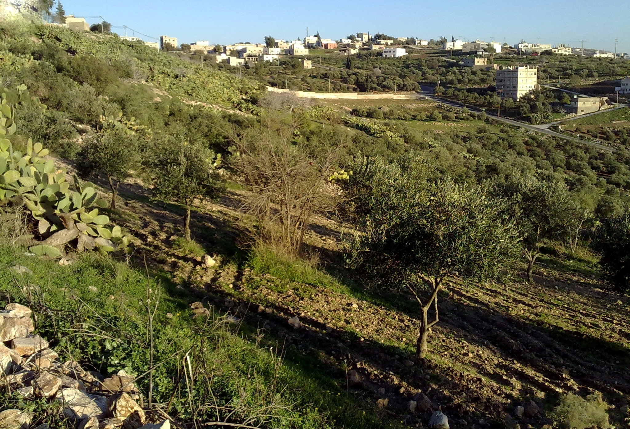 Ummesrareh in Johfiyeh Irbid - Jordan